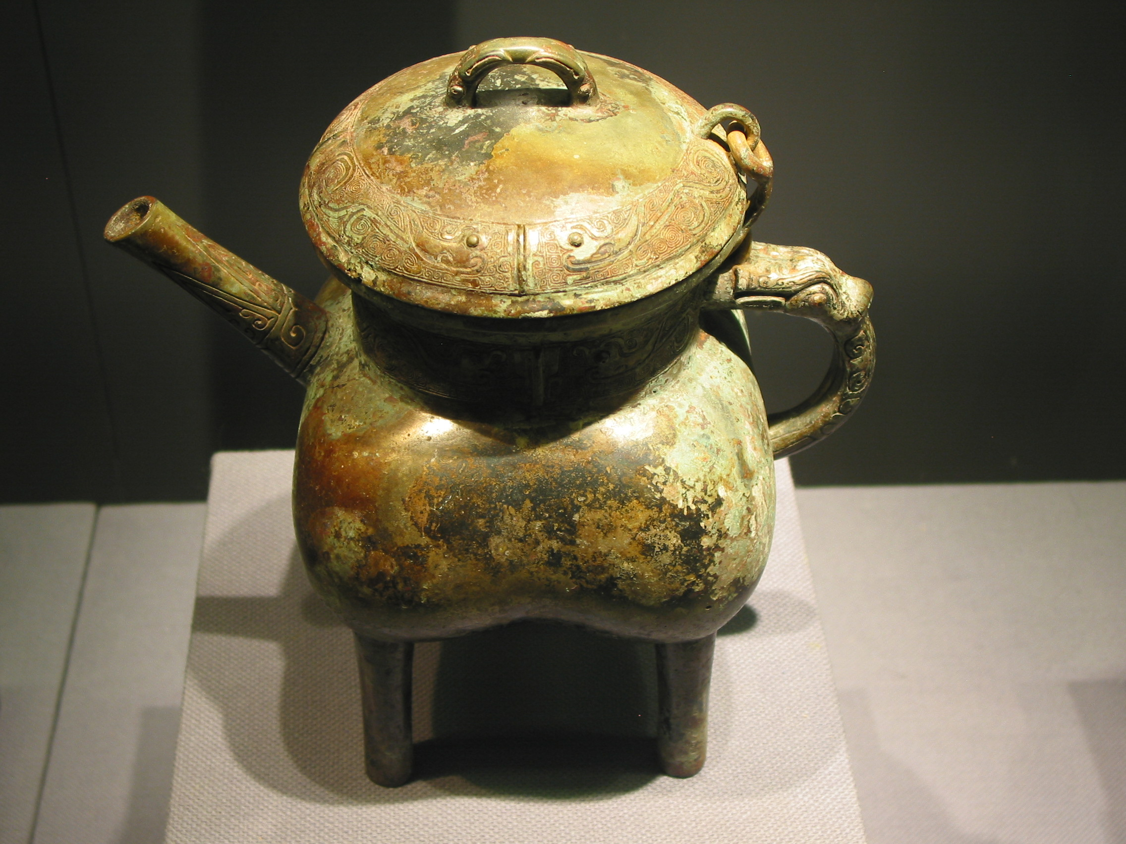 Ke he pot (克盉) in Capital Museum, Beijing, China, Zhou Dynasty